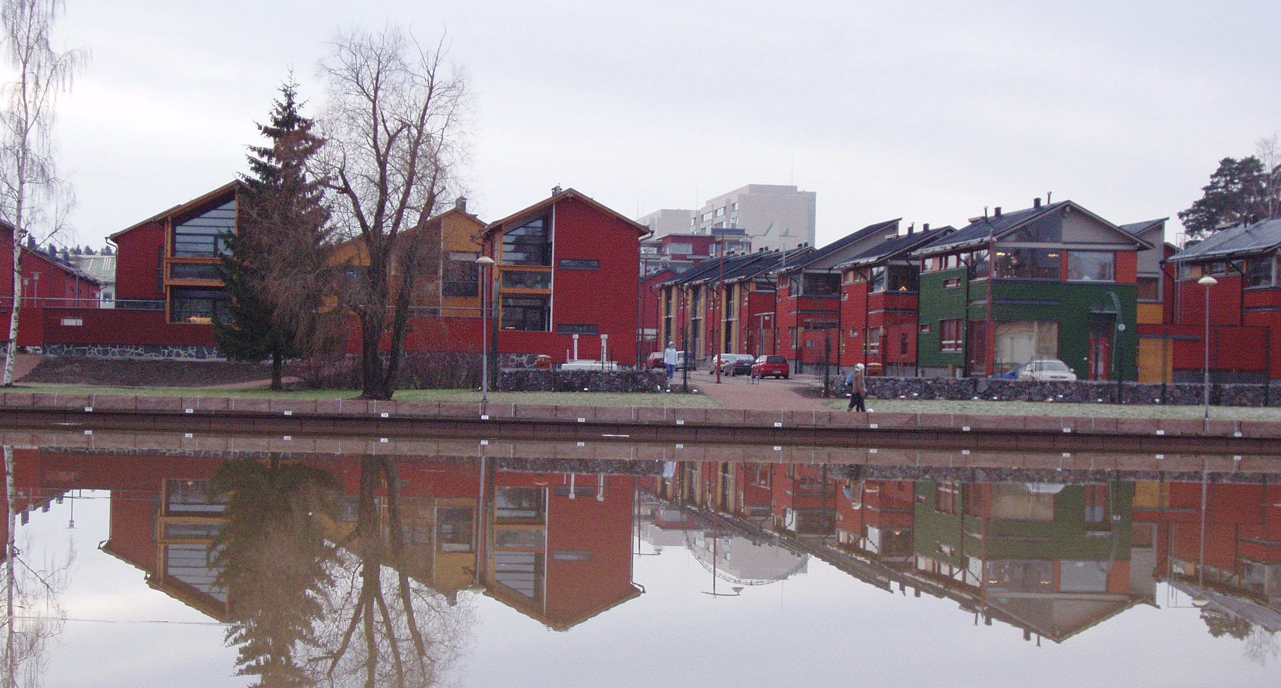 Porvoo, Finland: New Housing by architect Tuomas Siitonen. Photo, 2006, by TTKK